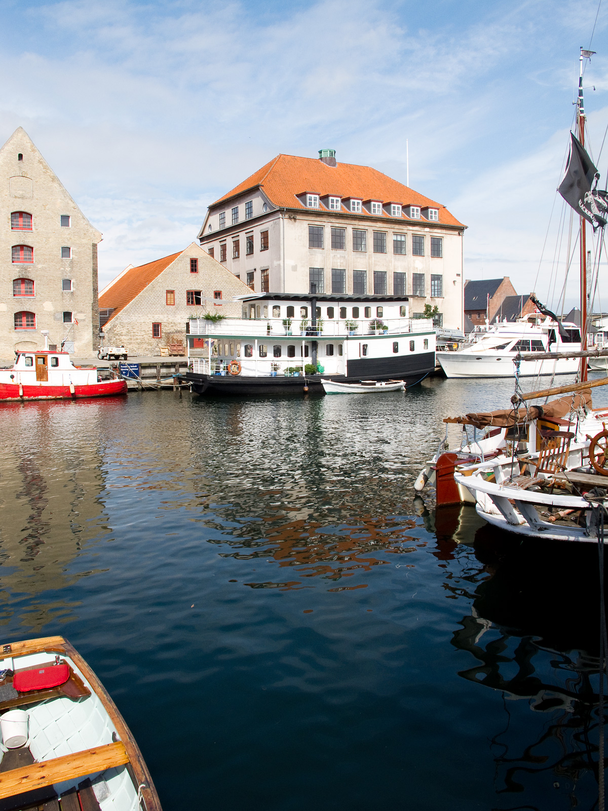 Grønlandske Handels Plads - Strandgade 104, 106 and 108 viewed from the other side of Christianshavns Kanal in Copenhagen, Denmark